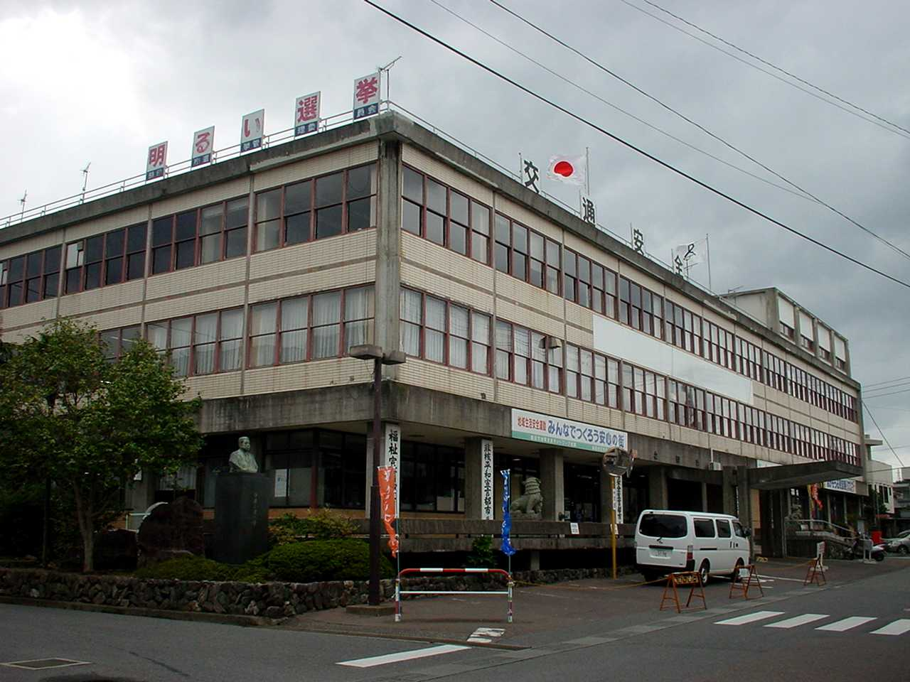 City Hall of Masuda, Shimane, Japan